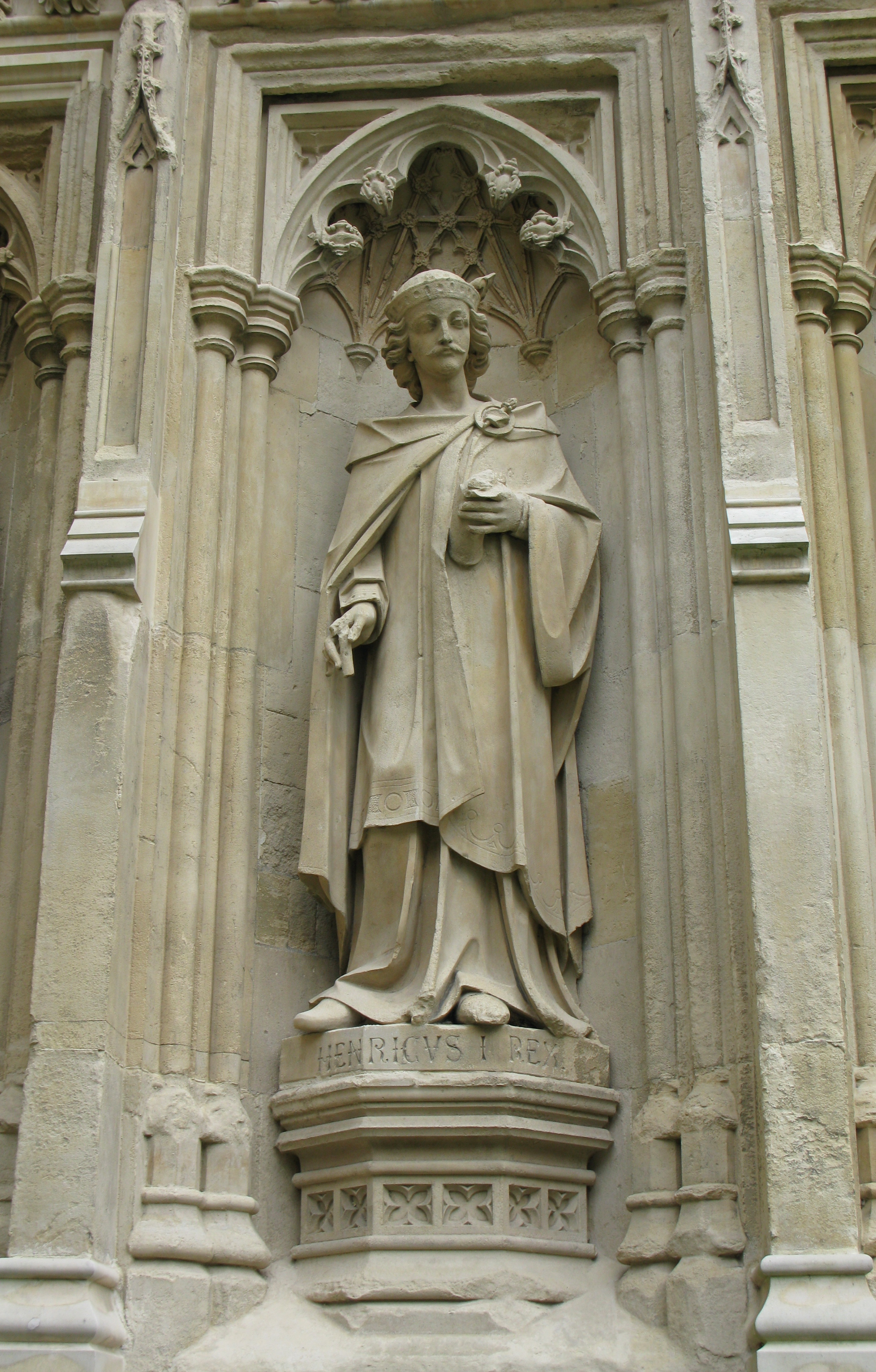 Sculpture of Henry I of England on Canterbury Cathedral in Canterbury, England.